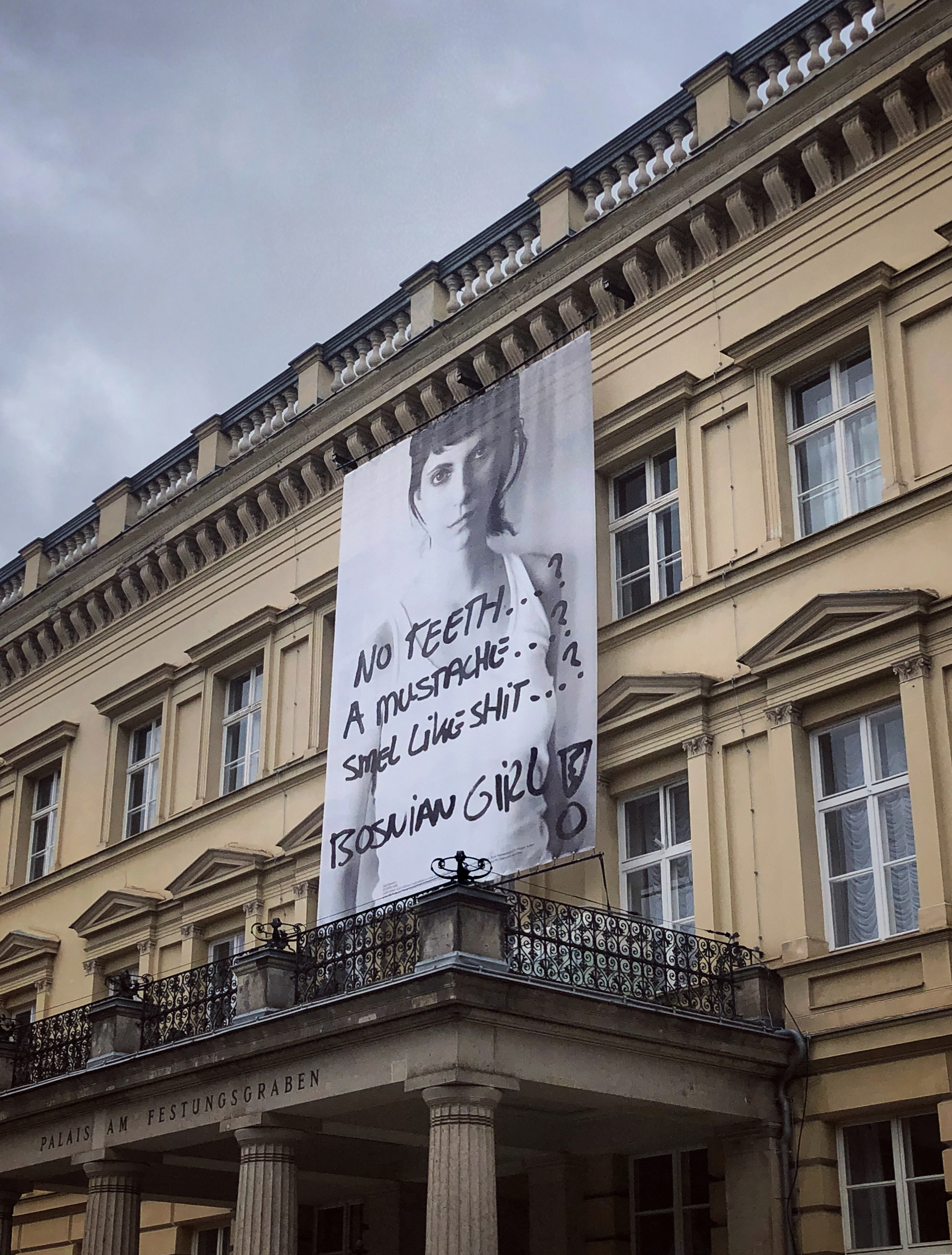 Exhibition view of Šejla Kamerić's work Bosnian Girl at 4. Berliner Herbsalon at the Maxim Gorki Theatre in Berlin.